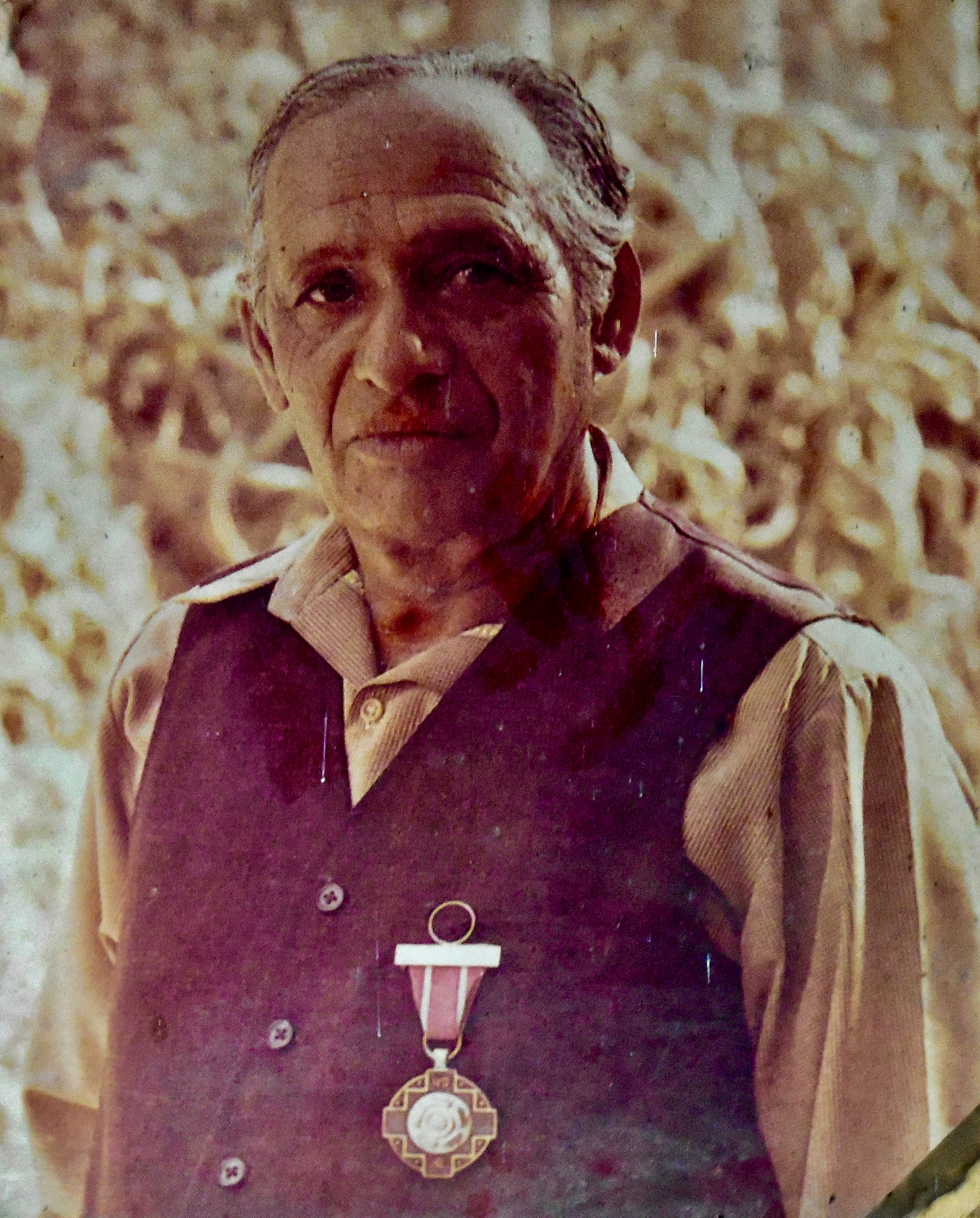 Nek Chand Saini when he was awarded the Padma Shri by the Government of India in 1984. This photo was taken at the time, and only recently scanned to add as a digital file. I hereby release my photograph into the public domain.